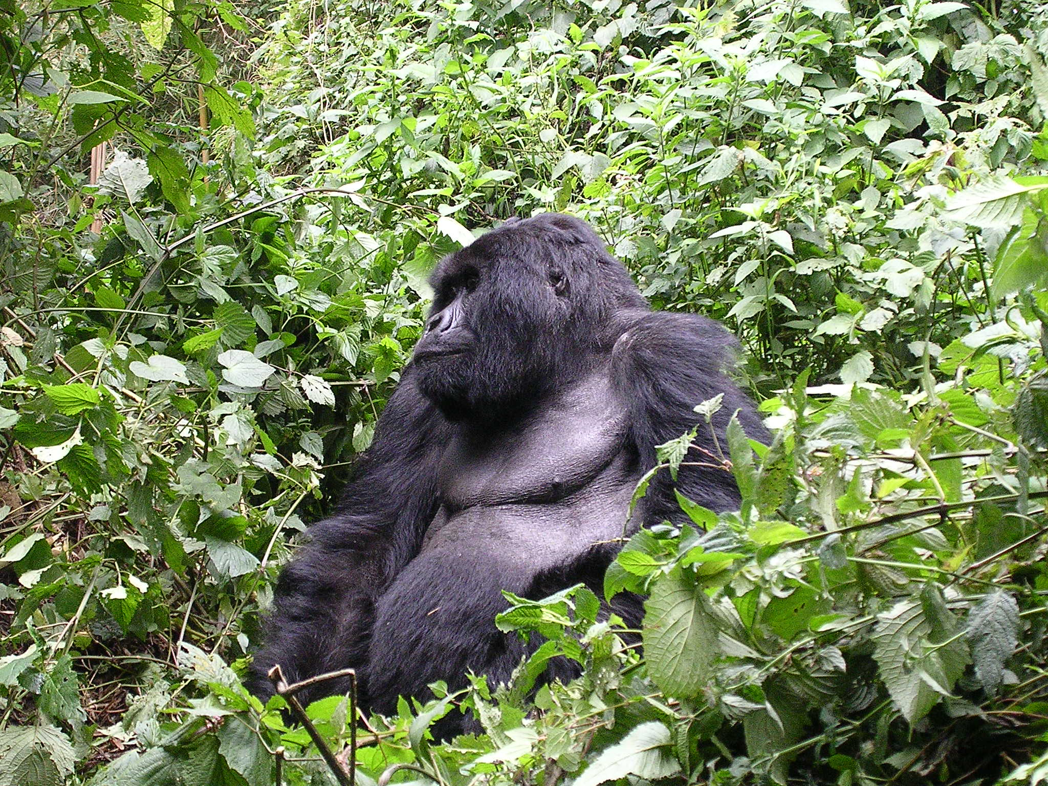 Tired gorilla